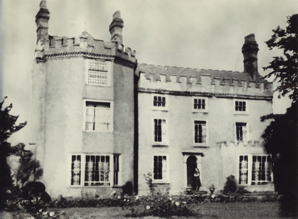 Annie Smith standing in the doorway of Falcon Lodge House sometime between the late 1940's and early 50's, before the house was razed to the ground to complete the estate.